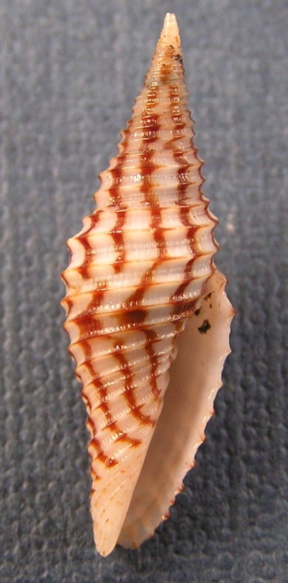 Subcancilla hrdlickai Salisbury, 1994, a sea snail from the family Mitridae; Philippines